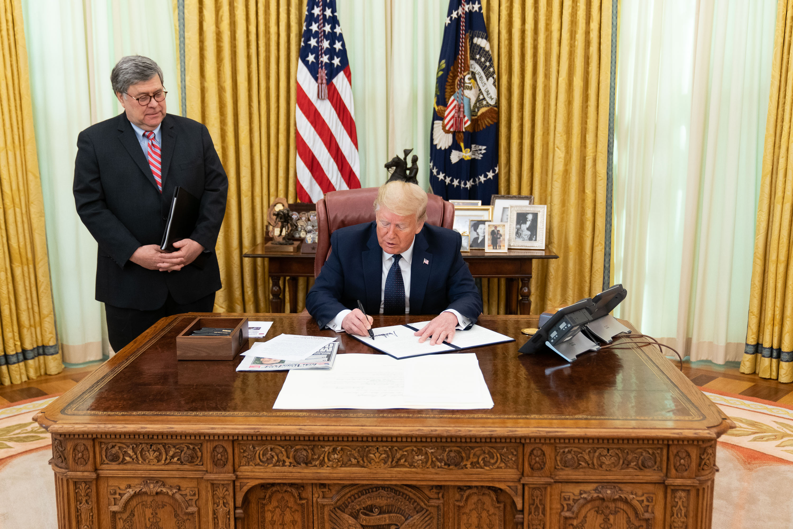 President Donald J. Trump, joined by United States Attorney General William Barr, signs an Executive Order on Preventing Online Censorship Thursday, May 28, 2020, in the Oval Office of the White House. (Official White House Photo by Shealah Craighead)